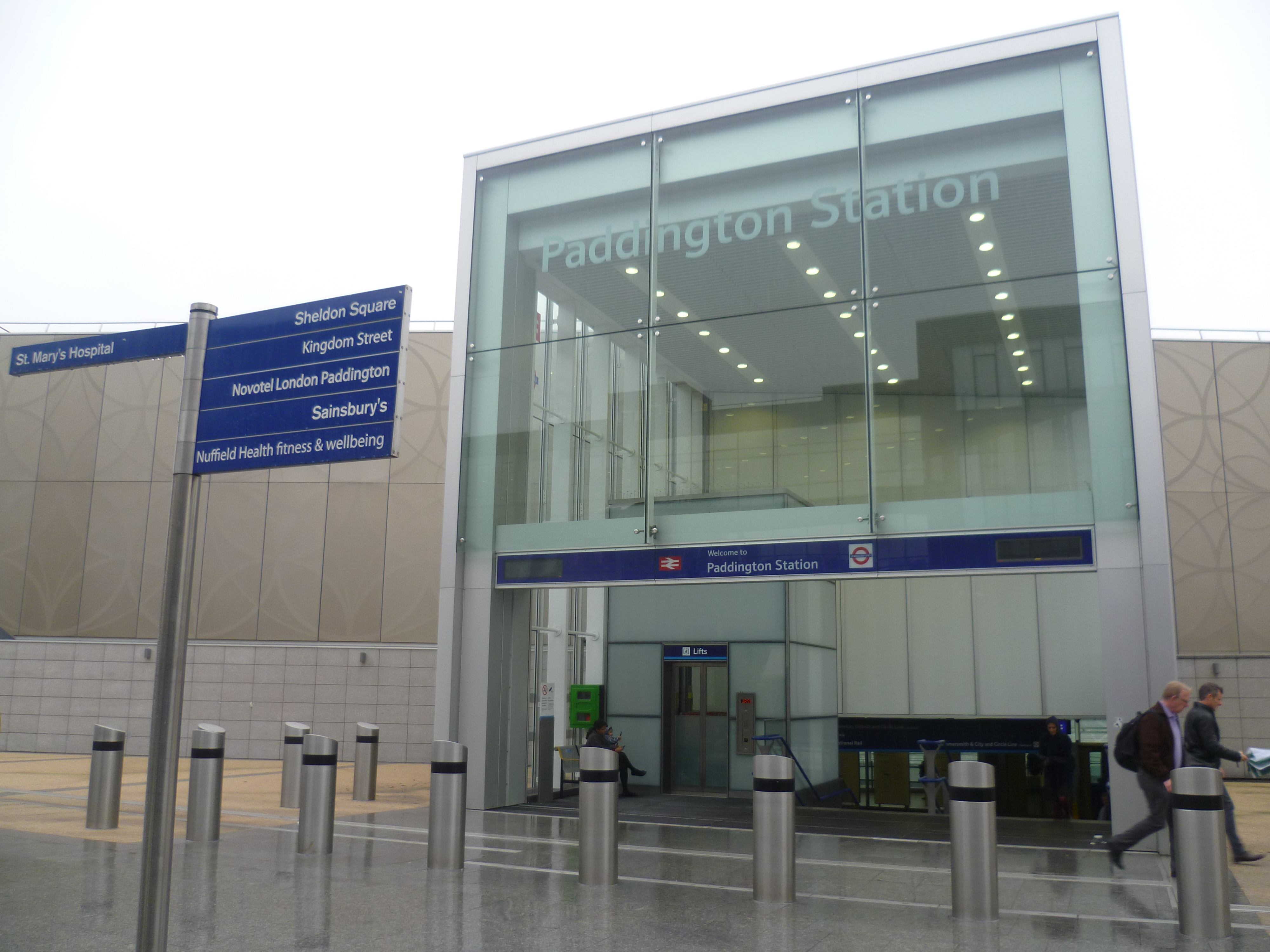 New entrance to London Paddington station from Paddington Basin.